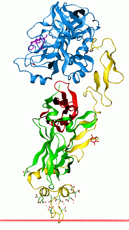 Protein image from OPM database